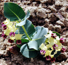 Asclepias cryptoceras. Arches National Park, Utah, USA.